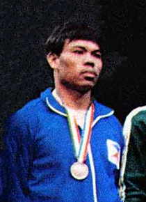 Boxing 71 kg podium, 1974 Asian Games in Tehran. Nicolas Aquilino